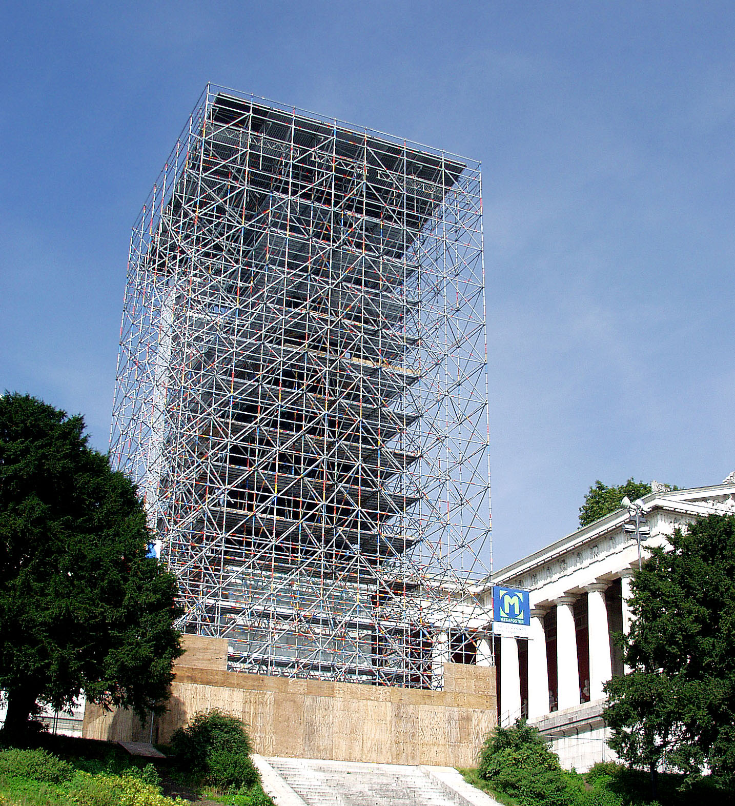 Scaffold Bavaria Statue, Munich, Bavaria, Germany